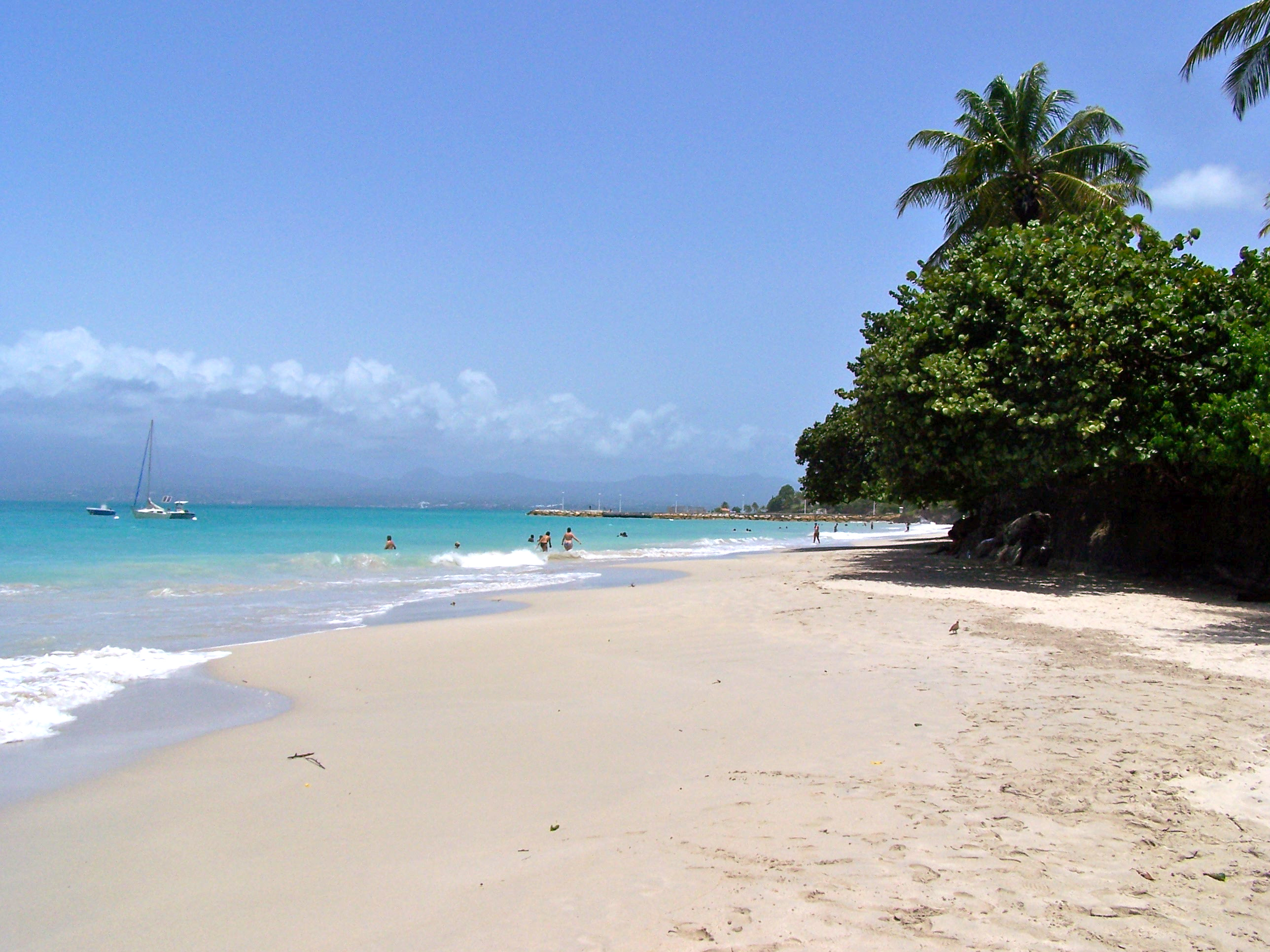 Plage de la Datcha au Gosier